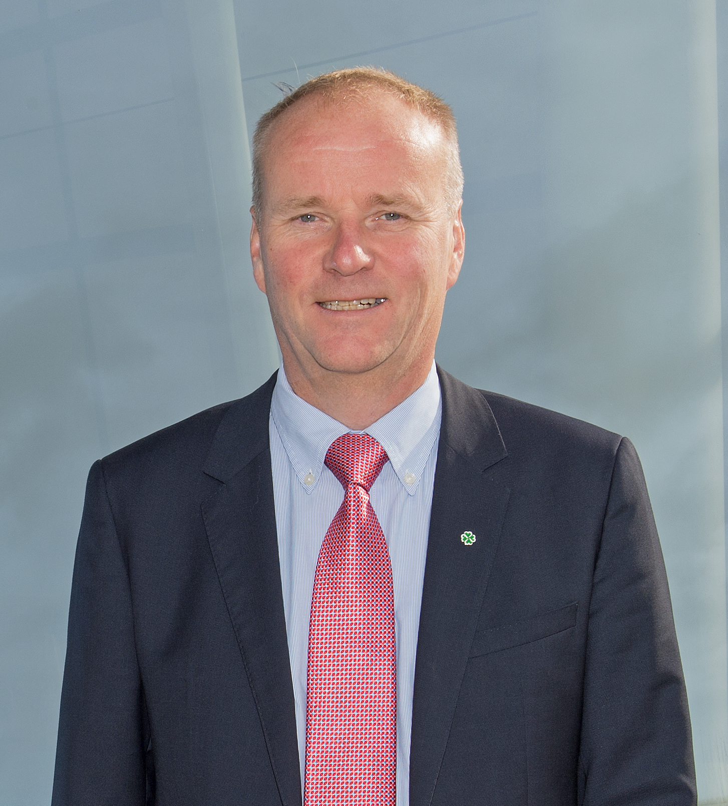 Olav Urbø, Senterpartiet. Foto: Kåre S. Pedersen. Bilde for Bilde